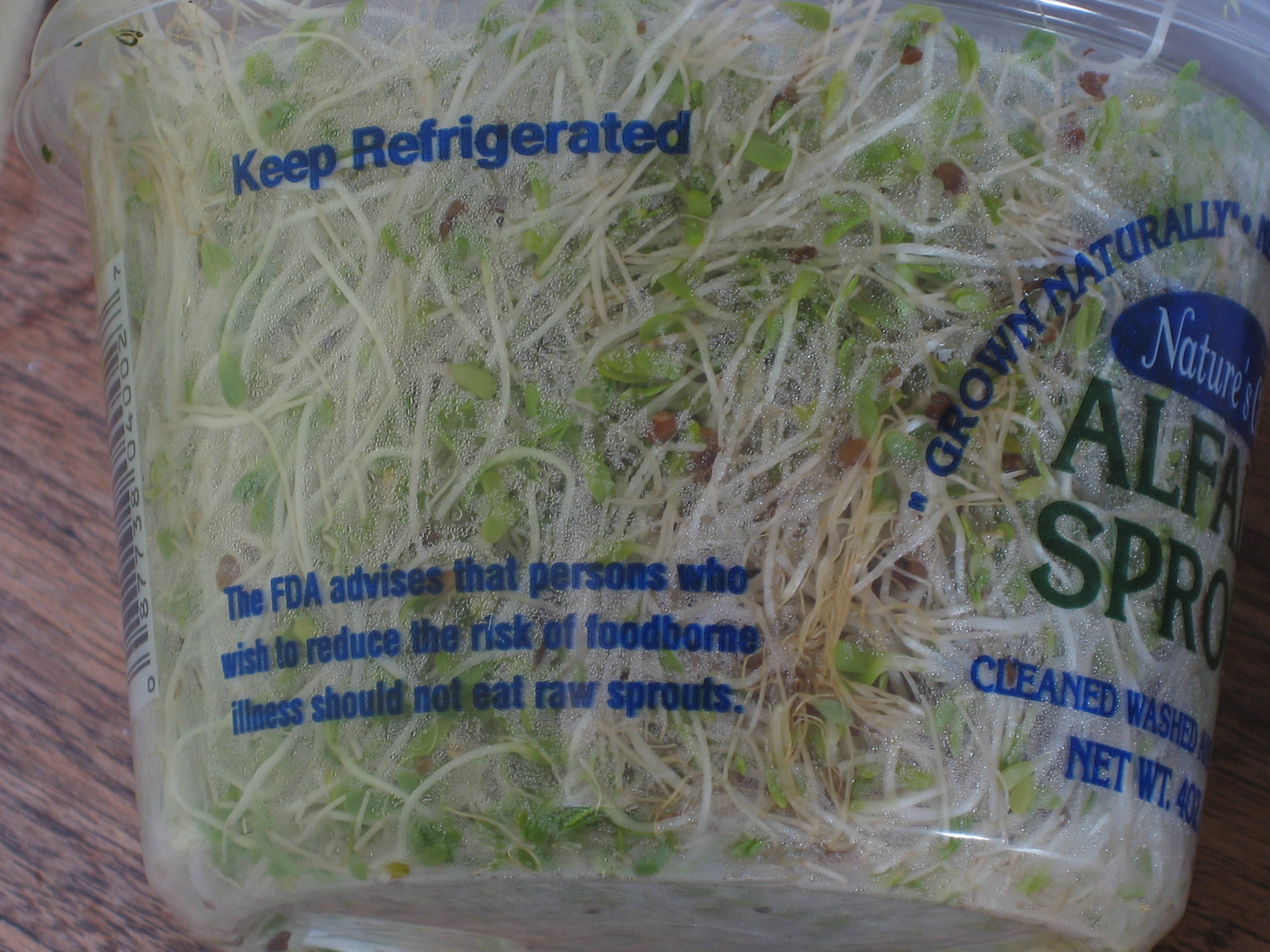 retail sprout package.